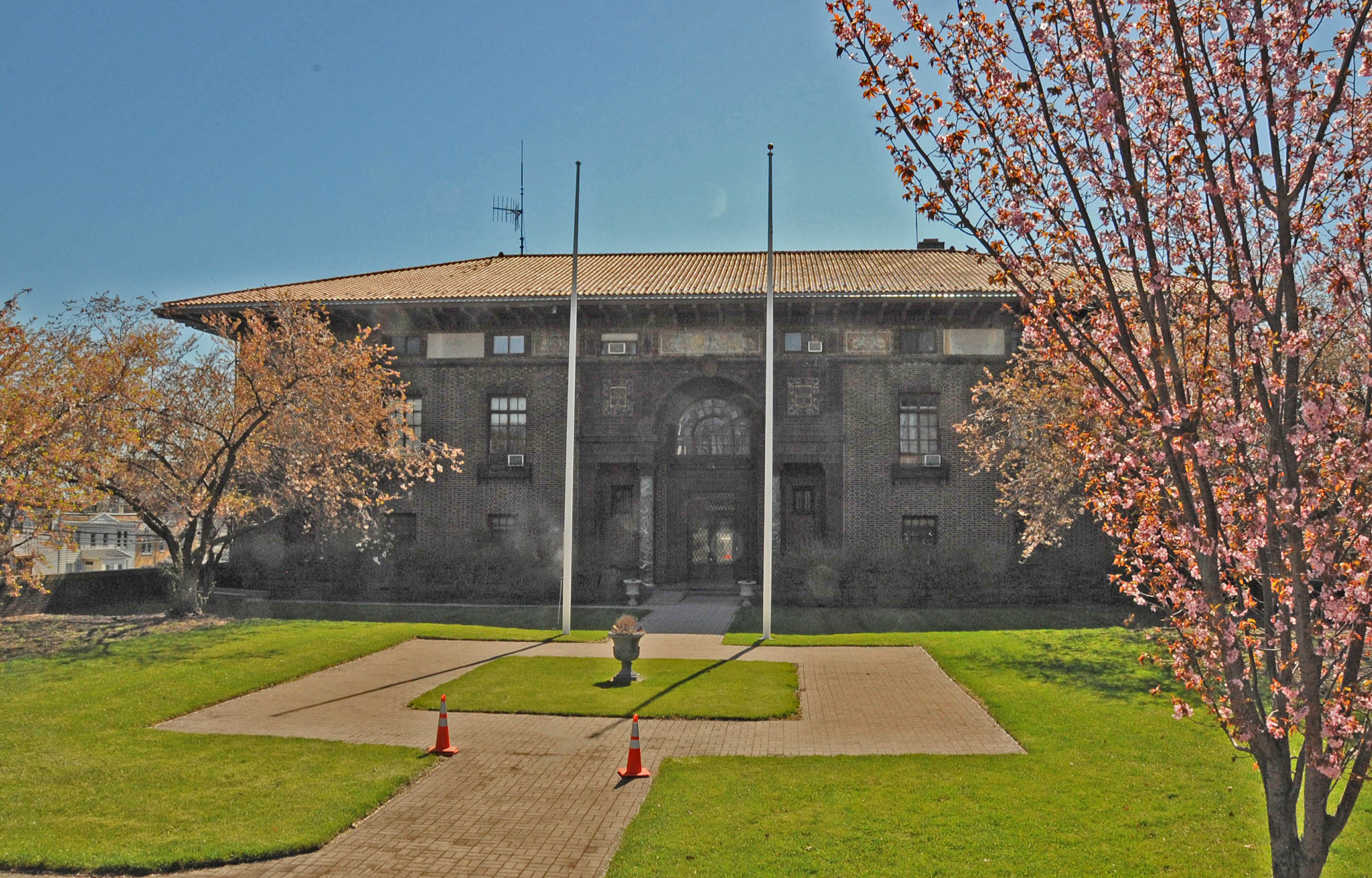 BUILT IN 1916; LOCATED OPPOSITE BRANCH BROOK PARK NOTED FOR ITS CHERRY BLOSSOM FESTIVAL IN APRIL